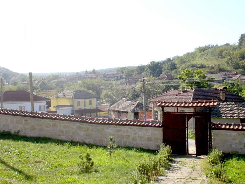 The centre of village Osikovo, Popovo municipality, Bulgaria